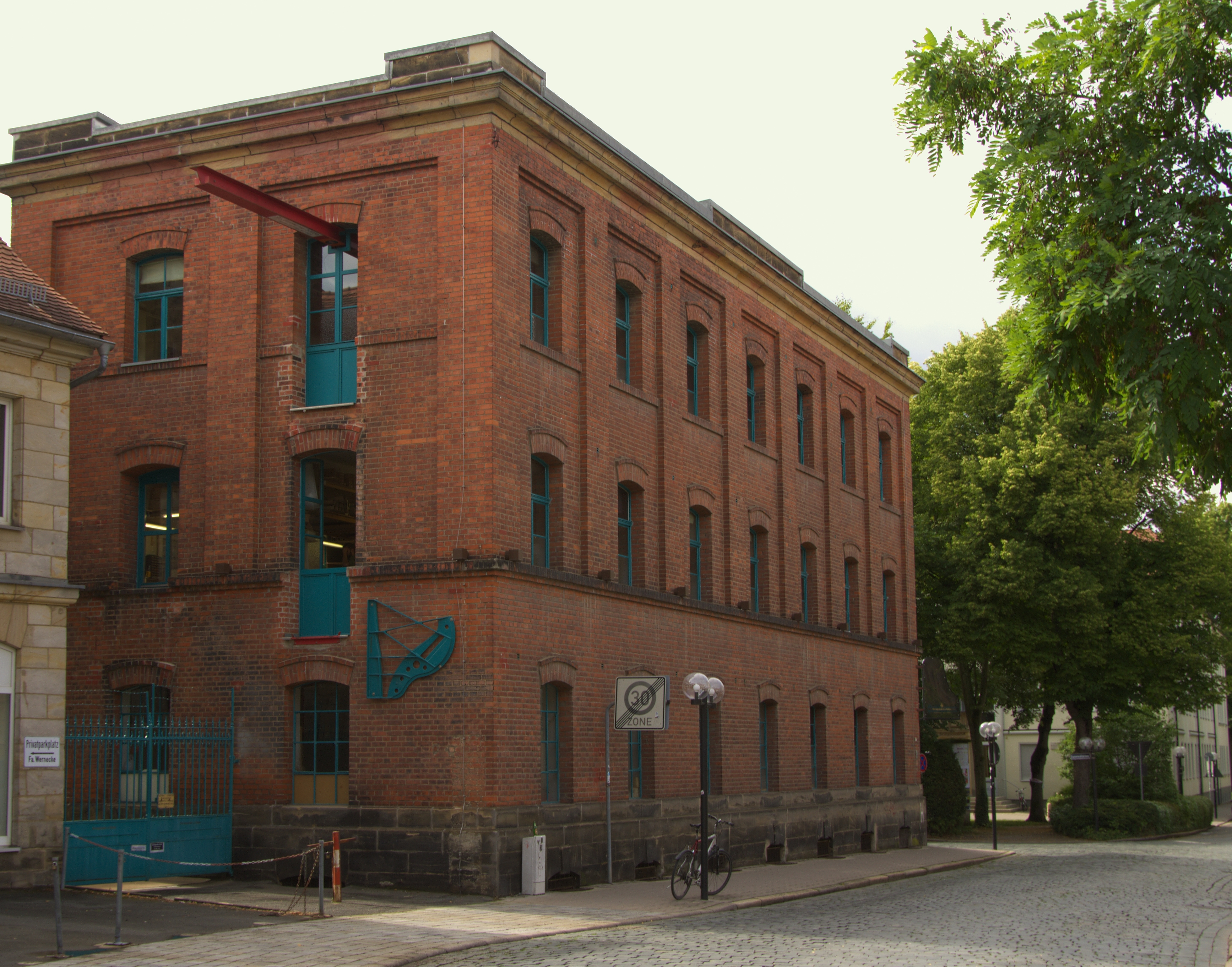 Workshop of the piano manufacturer Steingraeber & Söhne in Bayreuth.